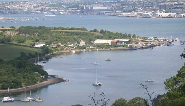 Southdown on the Insworke Peninsula. This photograph was taken from the viewpoint on Maker Heights at SX430515. It looks very pretty with the tide in but when the tide is out - which is most of the time - almost all the foreground water is mud flats. In the background is the River Tamar and Devonport Dockyard.